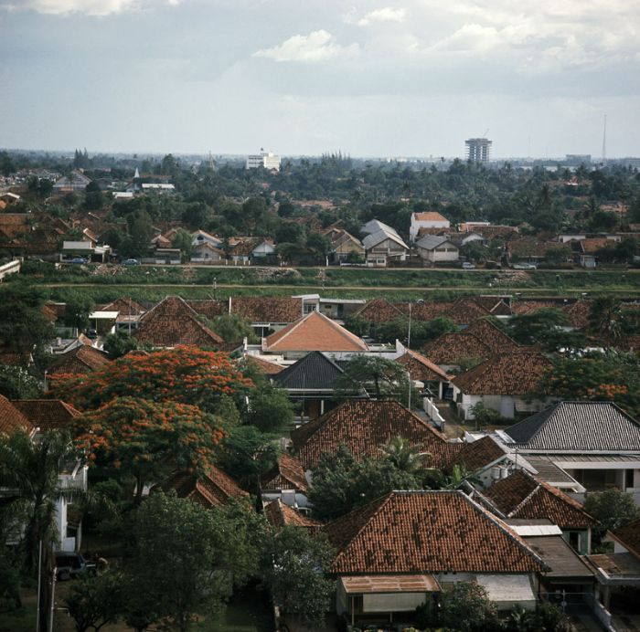 View over the Menteng area of the city